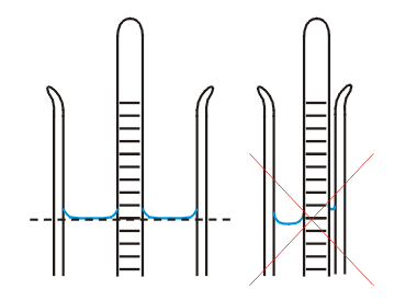 A hydrometer floating in a hydrometer jar.